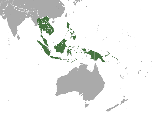 Geoffroy's Rousette (Rousettus amplexicaudatus) range